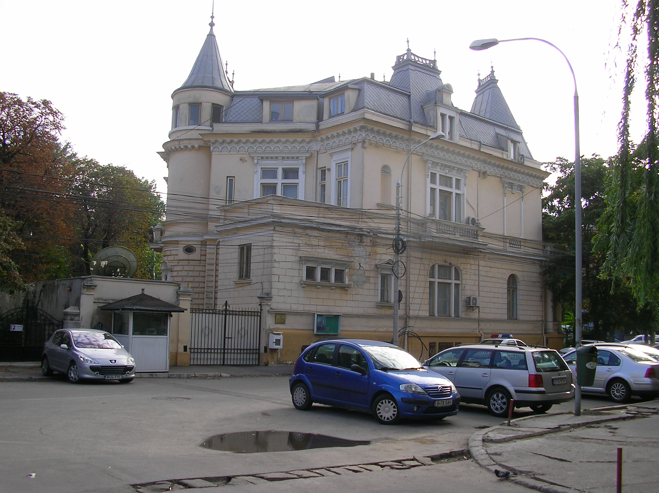 An old building of Bucharest